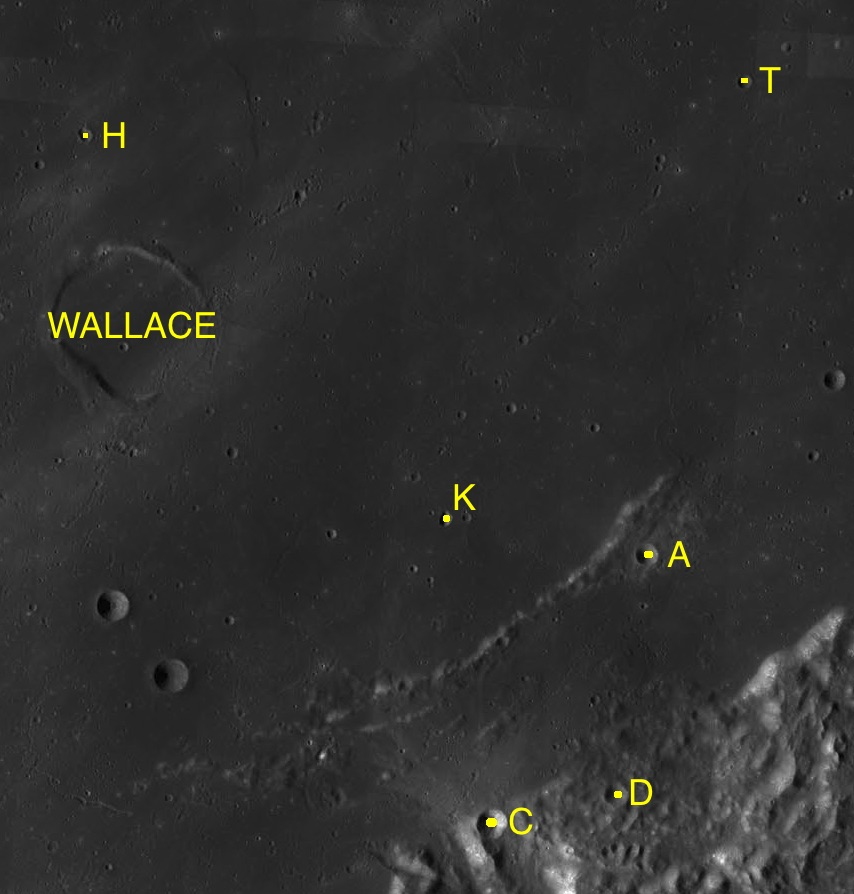 Part of the chart LAC-41 used for the presentation